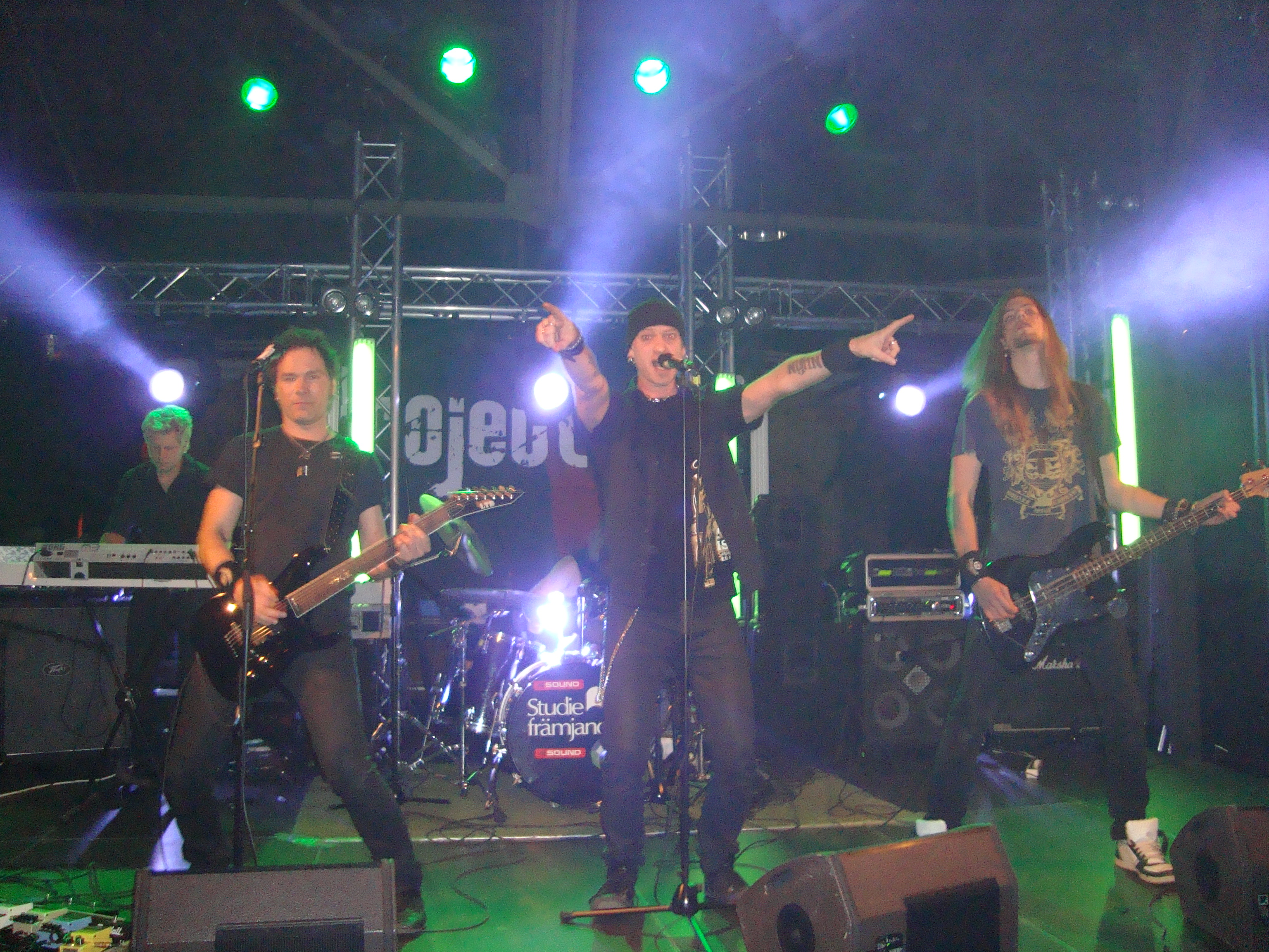 Renegade Five at Project Six3, Magasinet, Falun, Sweden.